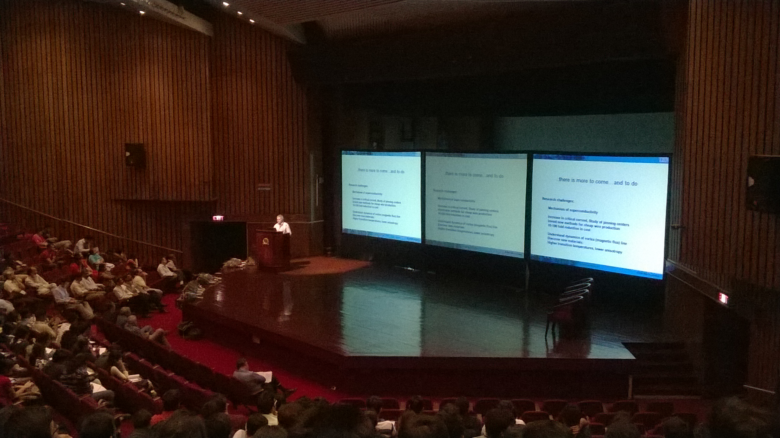 Vijyoshi National Science Camp at IISc, October 8th 2014. Lecture by Nobel Laureate Georg Bednorz.